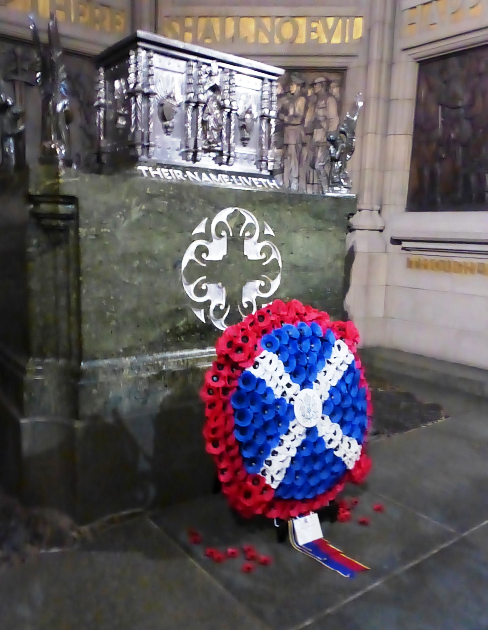 The casket at the centre of the shrine containing the original Rolls of Honour with over 147,000 names, placed there at the opening ceremony of the Memorial in 1927. The wreath marks St. Andrew's Day, 2014.